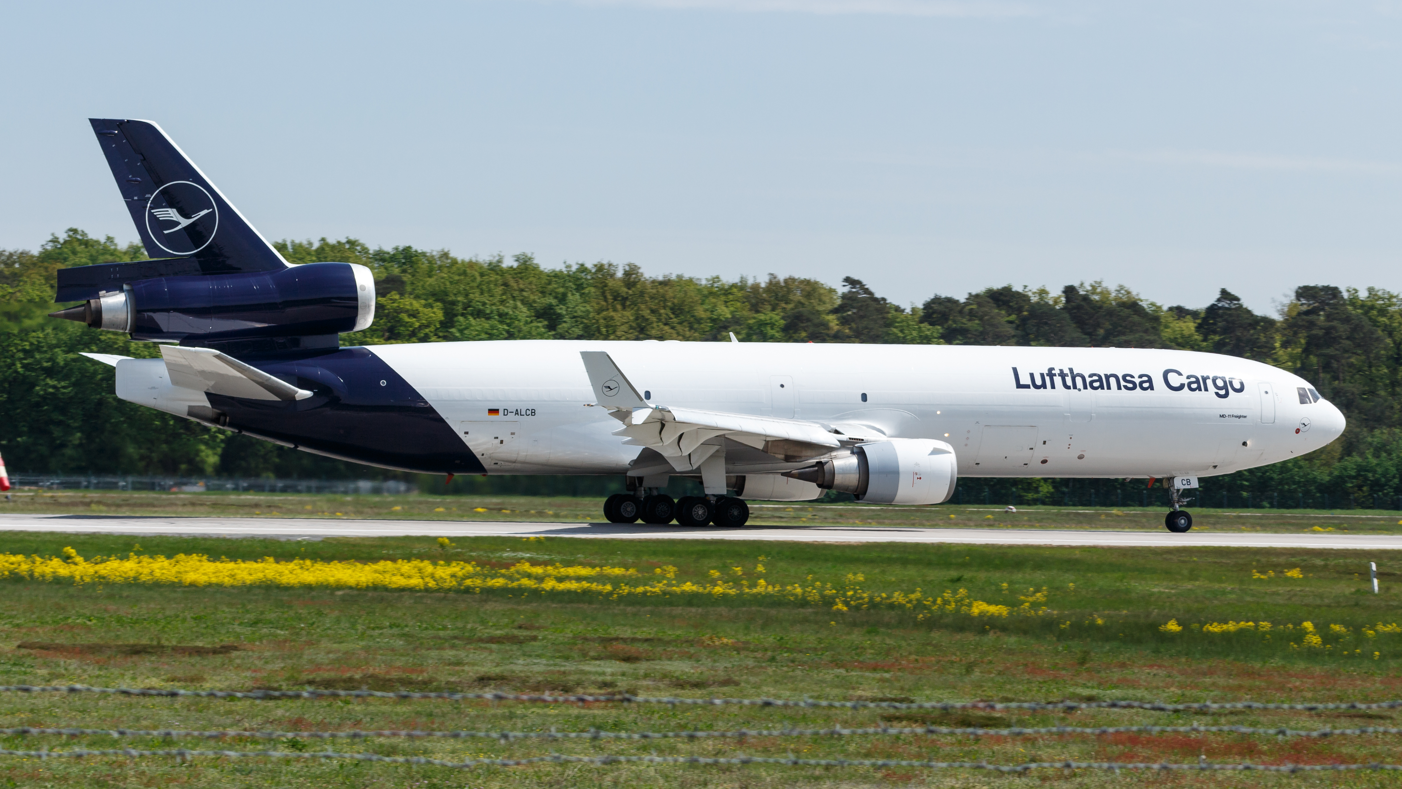 D-ALCB LHCargo MD11 New Livery.jpg